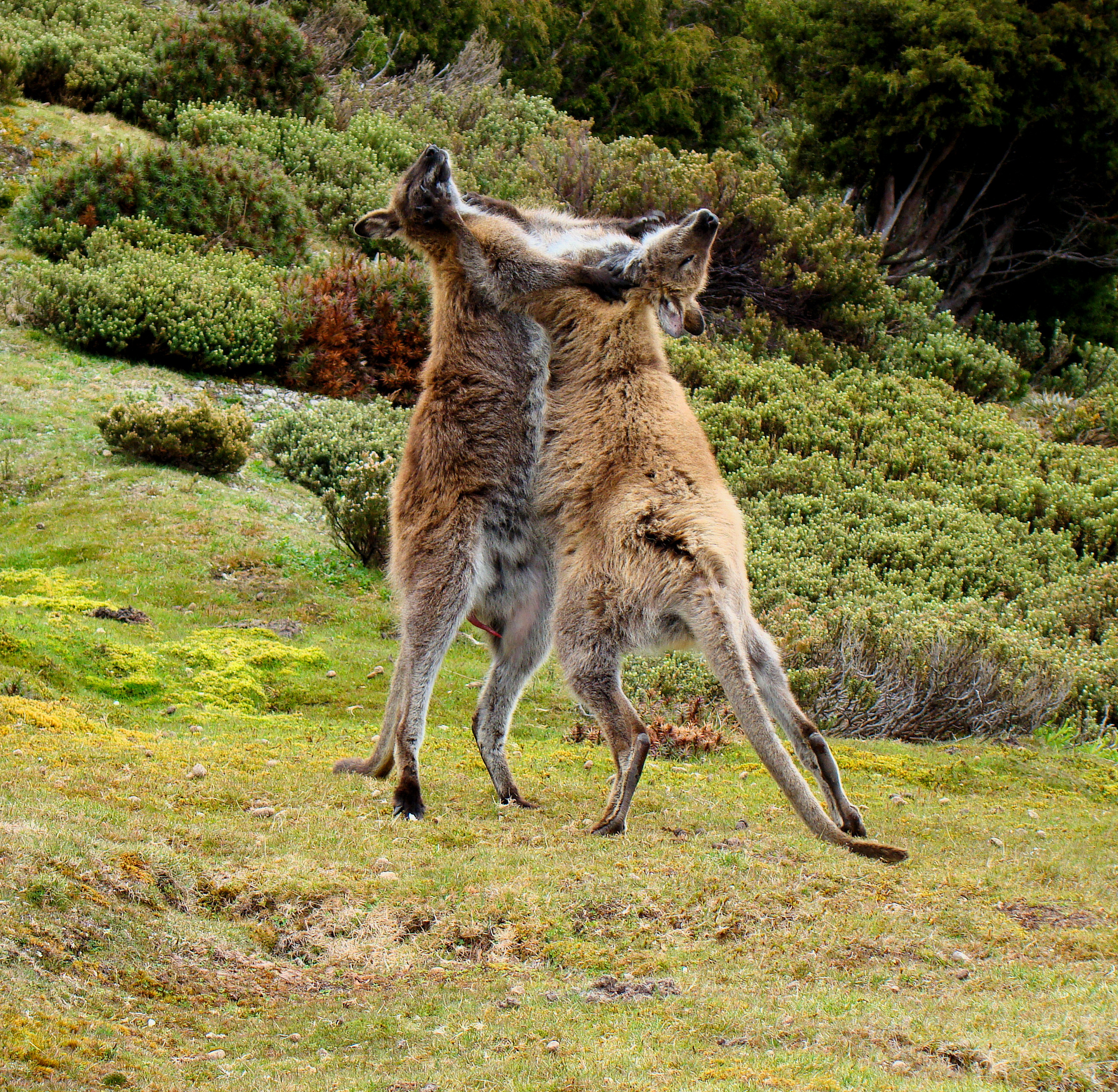 Two red-necked wallabies fighting near Mount Ossa in Tasmania. One of them seems particularly excited.